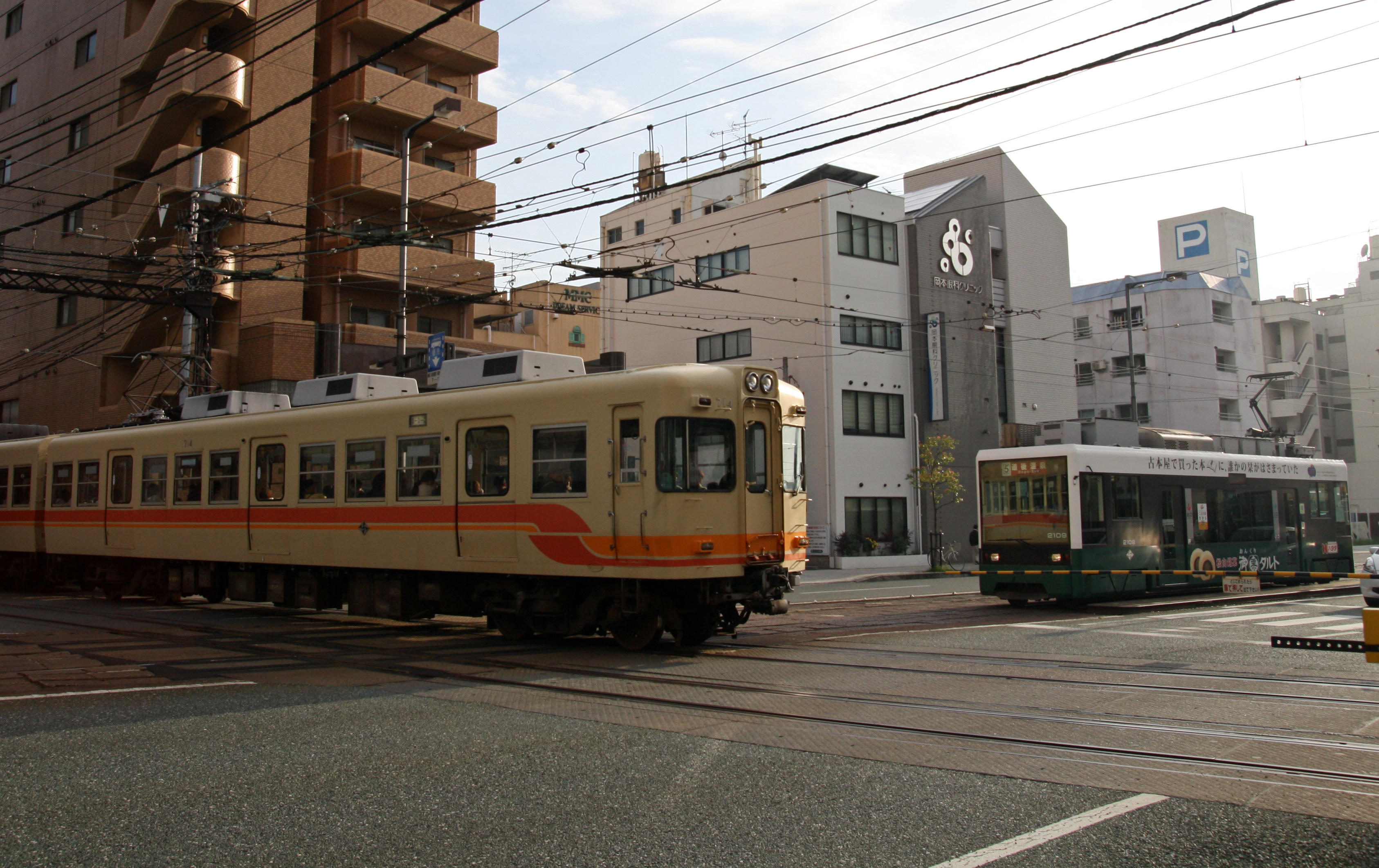 Otemachi diamond crossing.